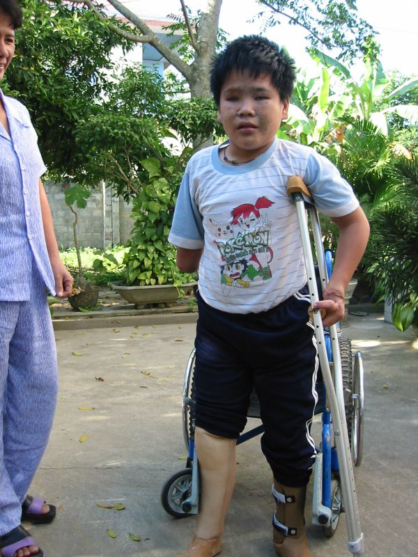 A landmine victim107-0791_IMG